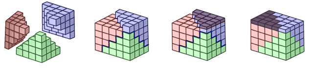 Proof without words for a sum of squares